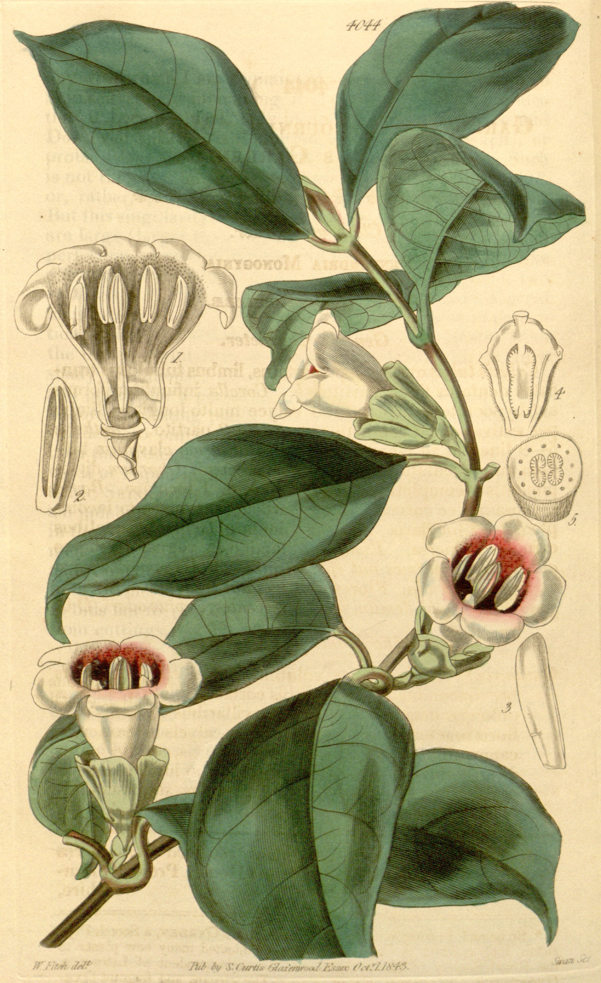 Sherbournia calycina